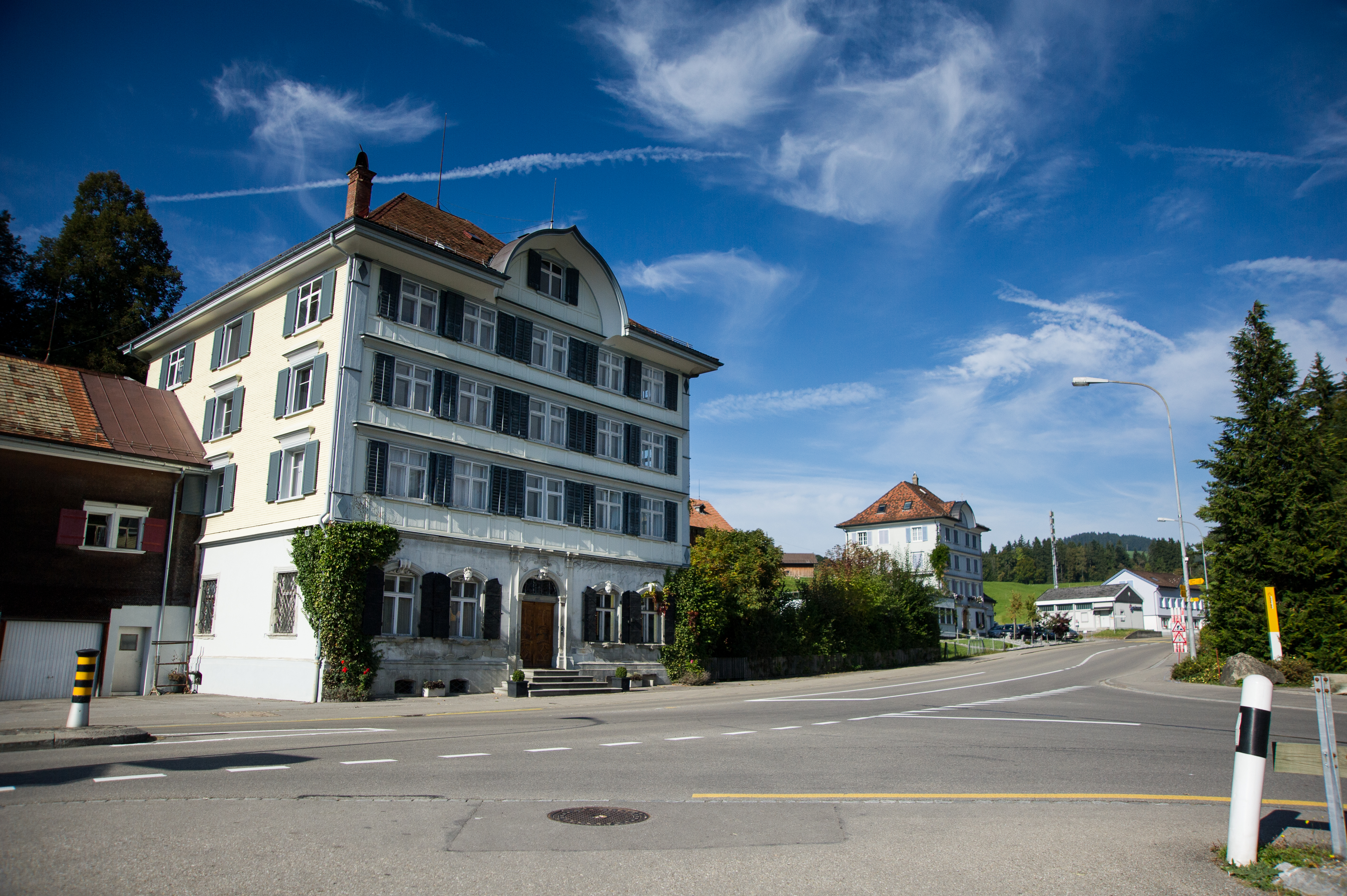 Wald, Fabrikantenhaus (1770/71)